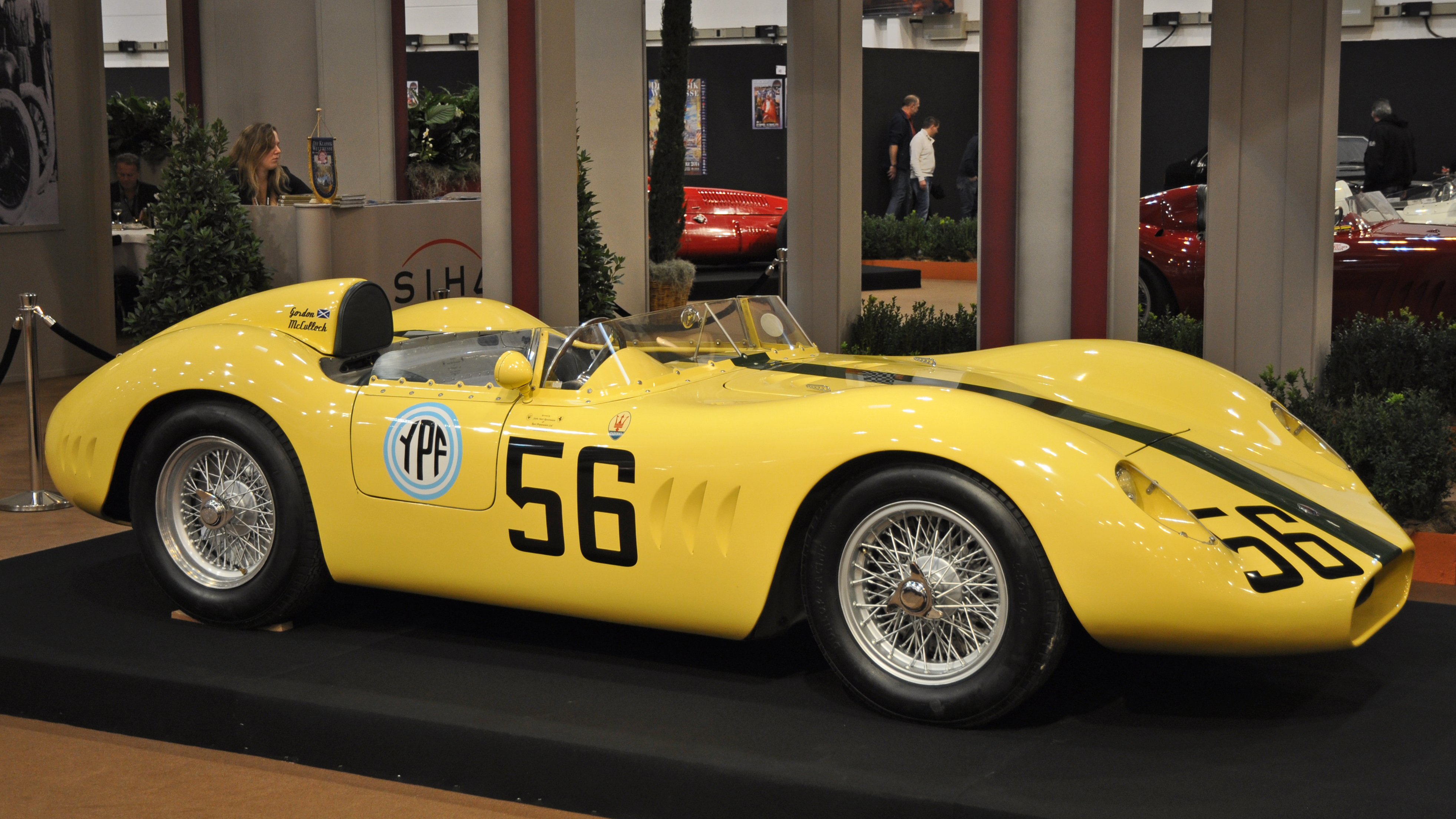 Maserati 200S (1956) at Essen Motor Show 2013